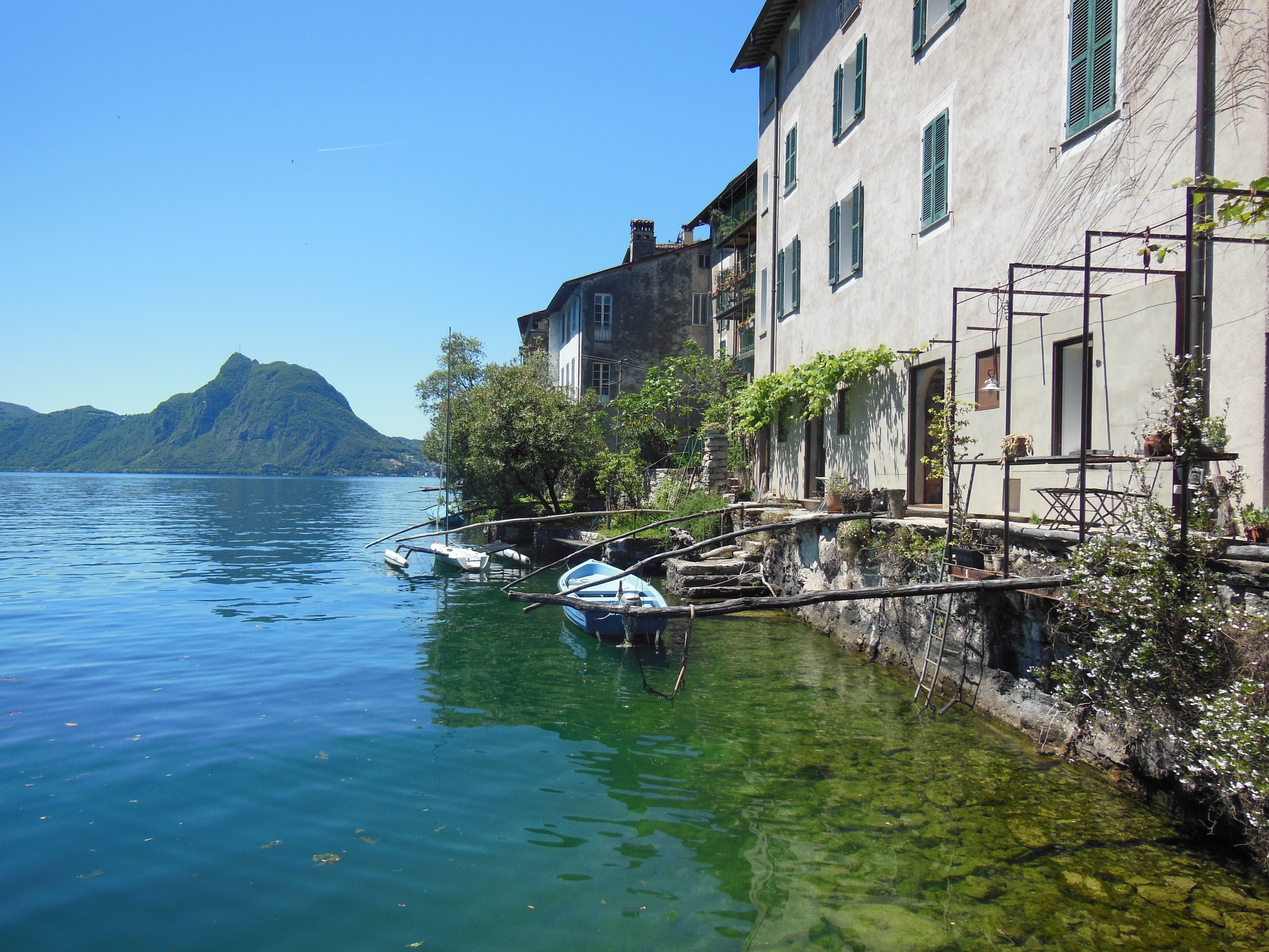 The waterfront of the village of Gandria, on Lake Lugano in Switzerland, looking west, with Monte San Salvatore in the distance. For more information, see the Wikipedia articles Gandria, Lake Lugano and Monte San Salvatore.